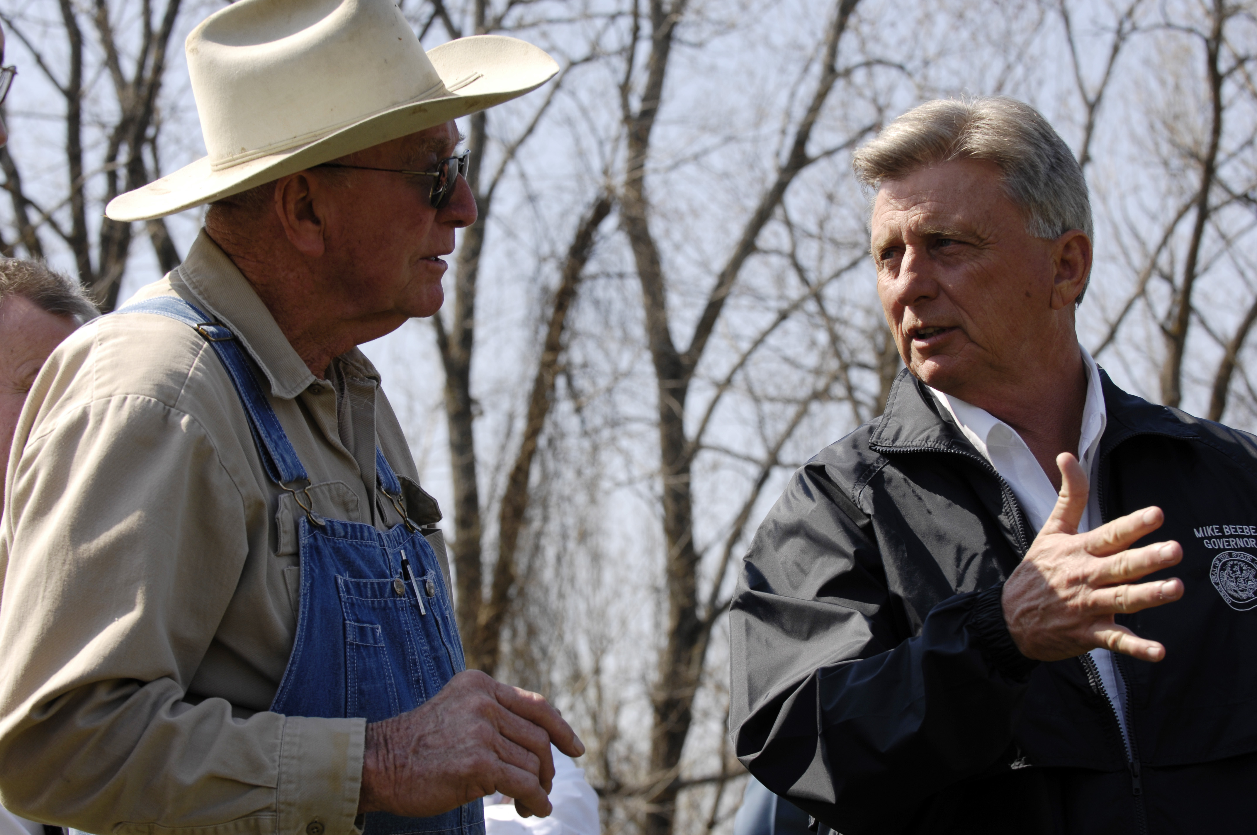 Des Arc, AR, March 25, 2008 -- TW Vincent, Secretary of the Levee Board, right, briefs Arkansas Governor Mike Beebe, left, along with other elected officials, about the conditions and operations of sandbagging in a local area called Sandhill. Jocelyn Augustino/FEMA